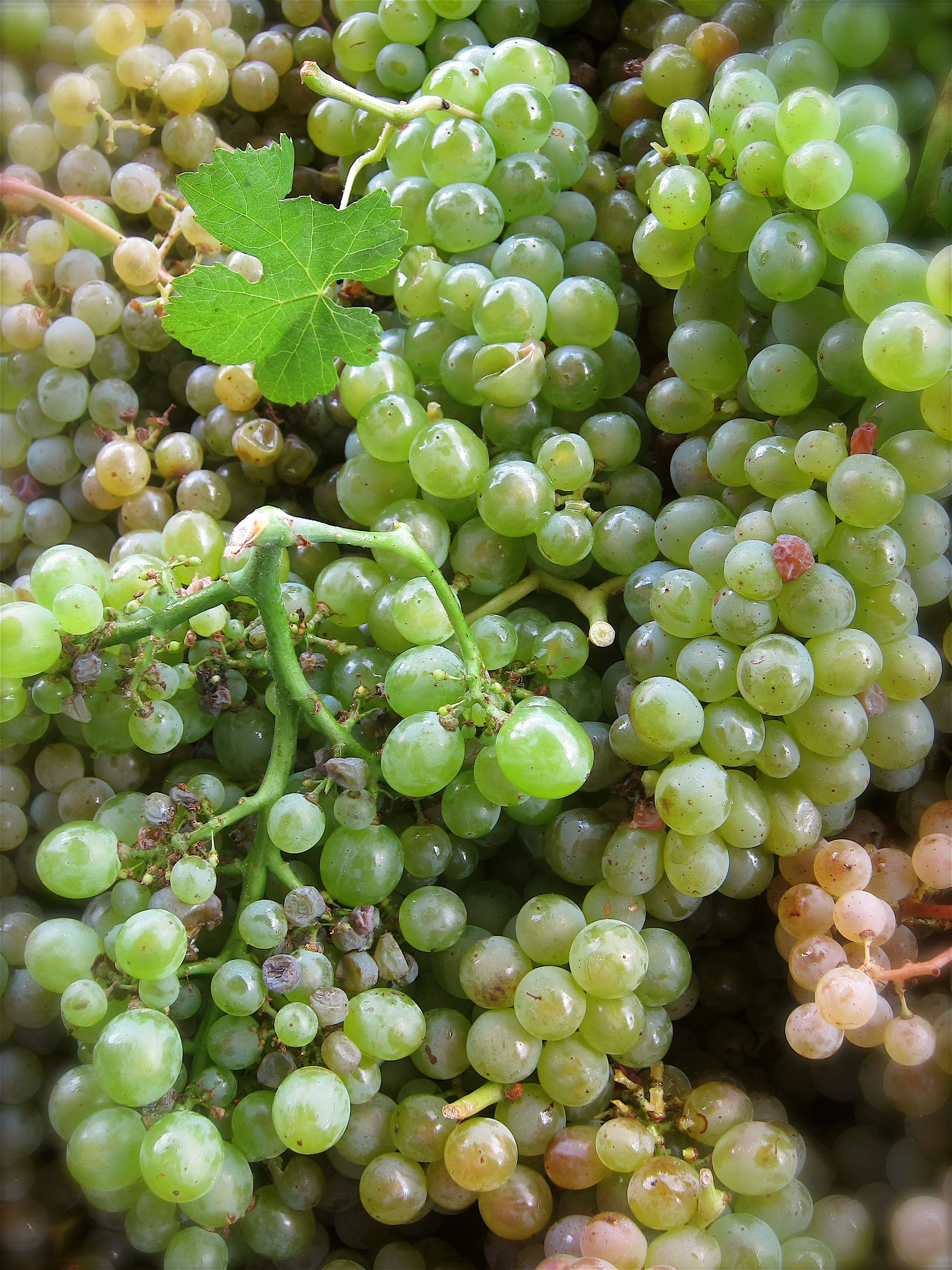 Trajadura/Treixadura grapes harvested from the Galicia wine region of Ribeiro in northwest Spain. This grape is also used in the wines of Rias Biaxas and Vinho Verde.